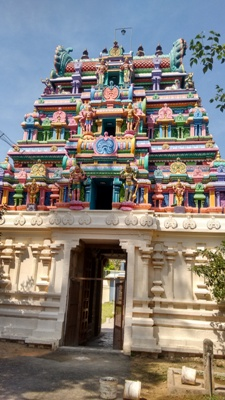 Kookoor ambaravanesvarar temple கூகூர் ஆம்பரவனேஸ்வரர் கோயில்